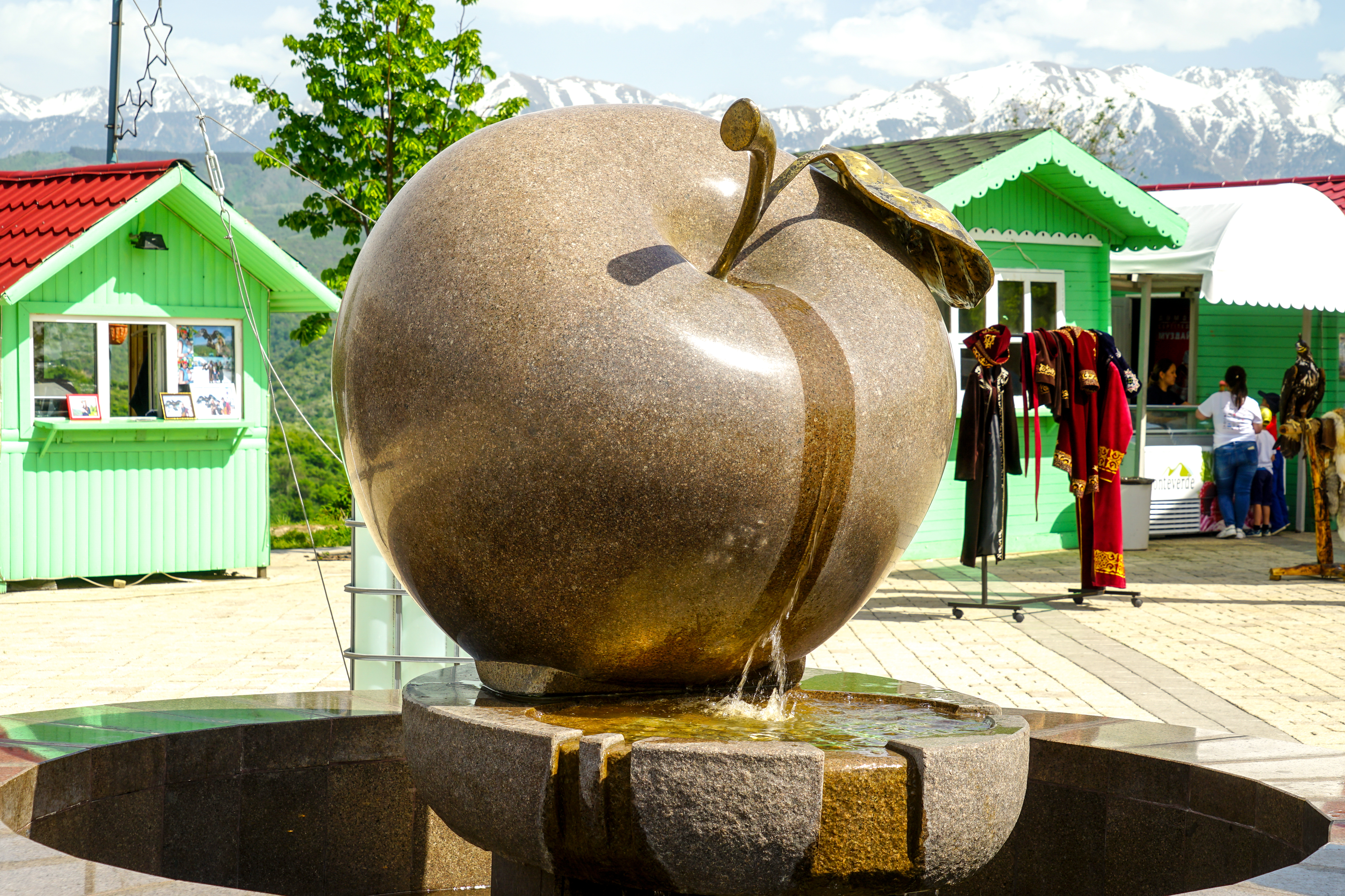 Photo of an Apple fountain in Kok Tobe Park.